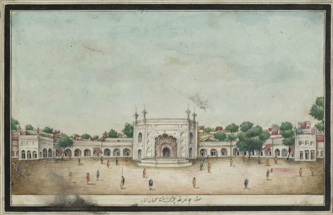 naqsha-i chandni chaukh-i Shahjahanabad The Chouk of Centre of the great street, running in a direct line from the Lahore Gate of the Palace to the above Mosque [Fatehpuri Mosque], where it turns to the right, and is continued to the Lahore Gate of the City.